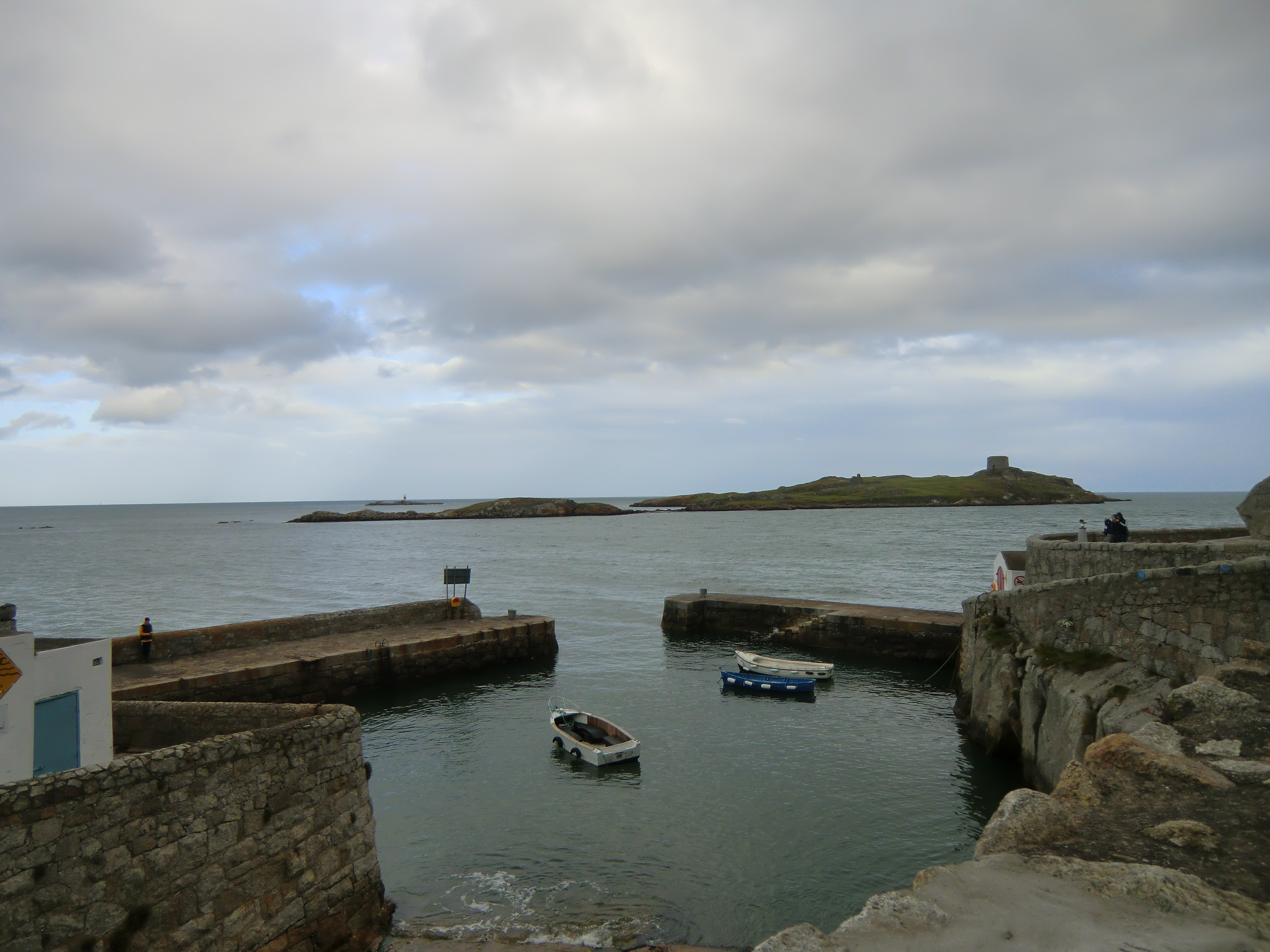 Coliemore Harbour and Dalkey Island with Martello Tower in the distance. Dalkey, Dublin, Ireland.